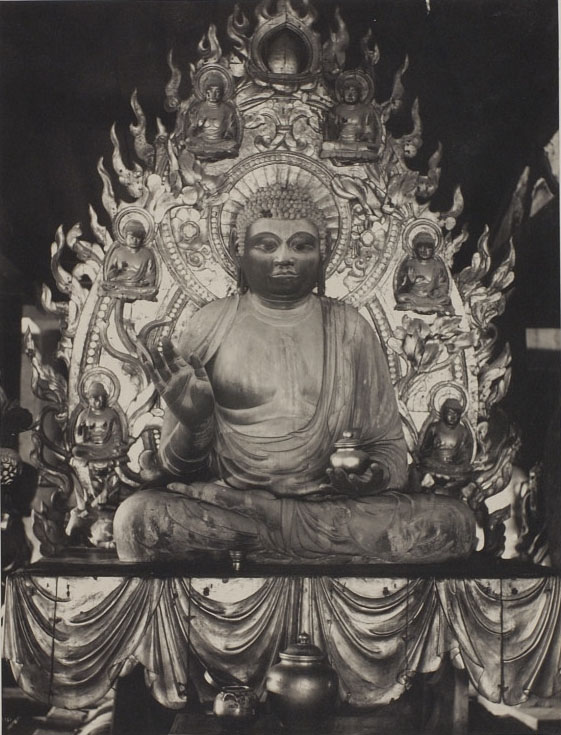 Bhaisajyaguru of Shin-Yakushi-ji